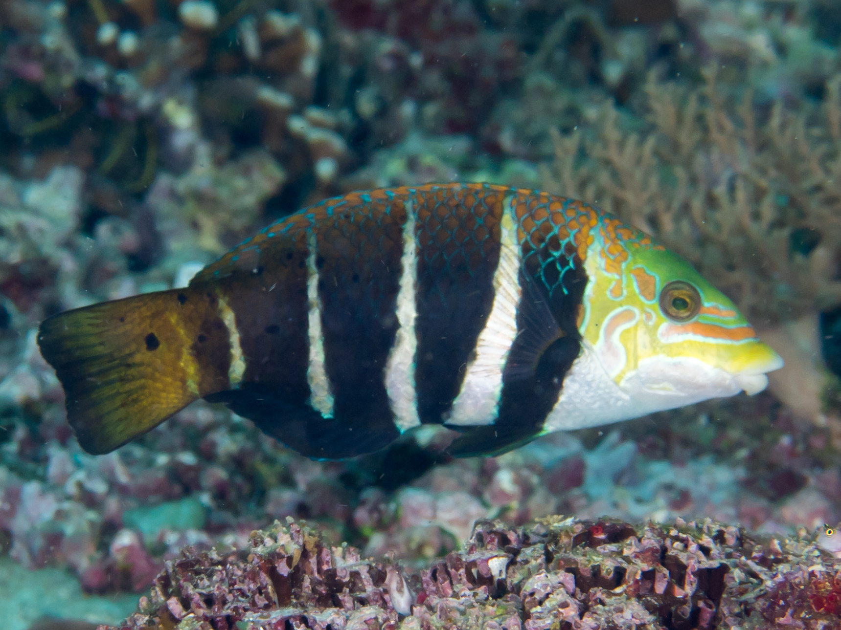 Morotai, Indonesia - Barred thicklip (Hemigymnus fasciatus)